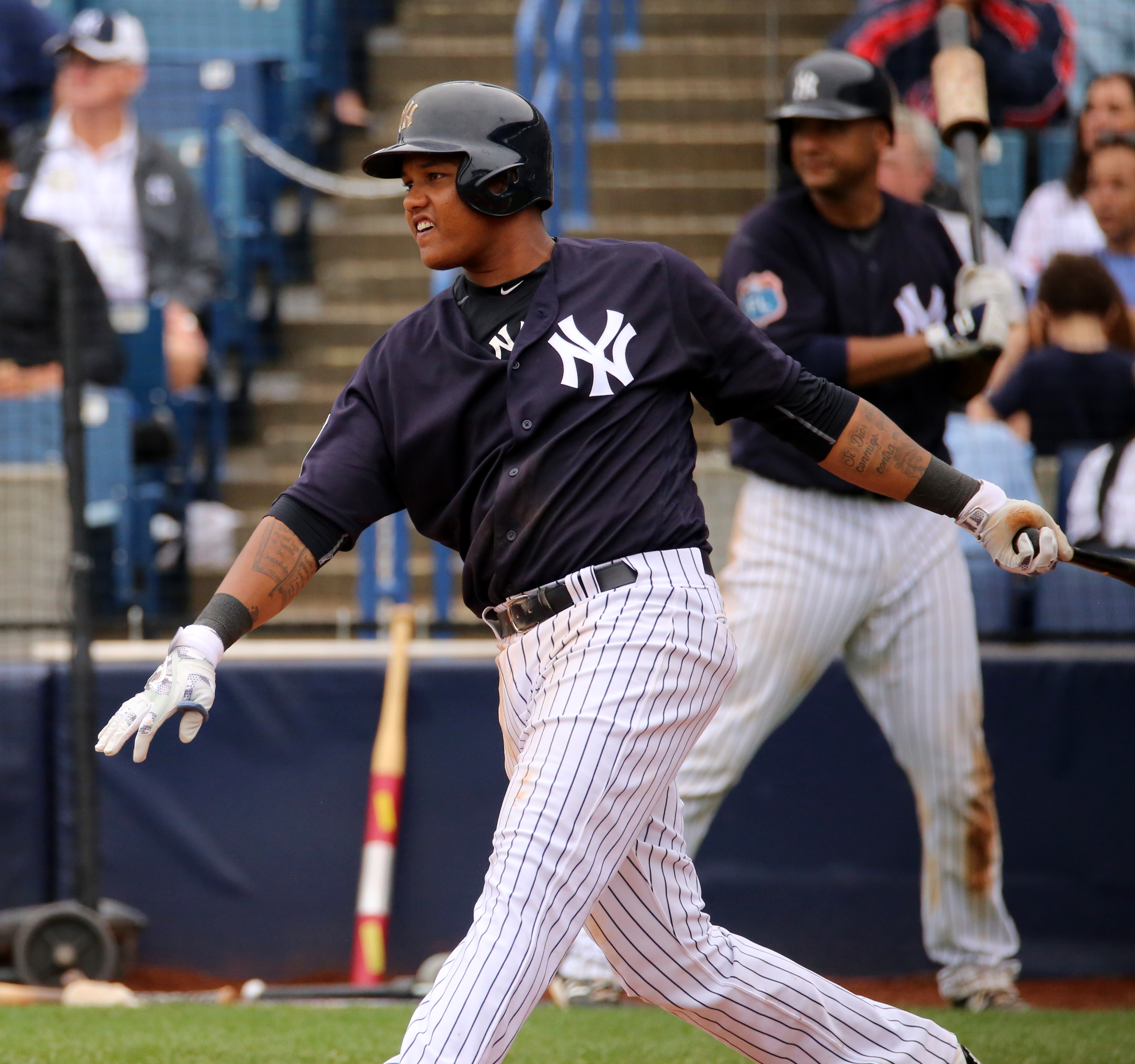 Starlin Castro